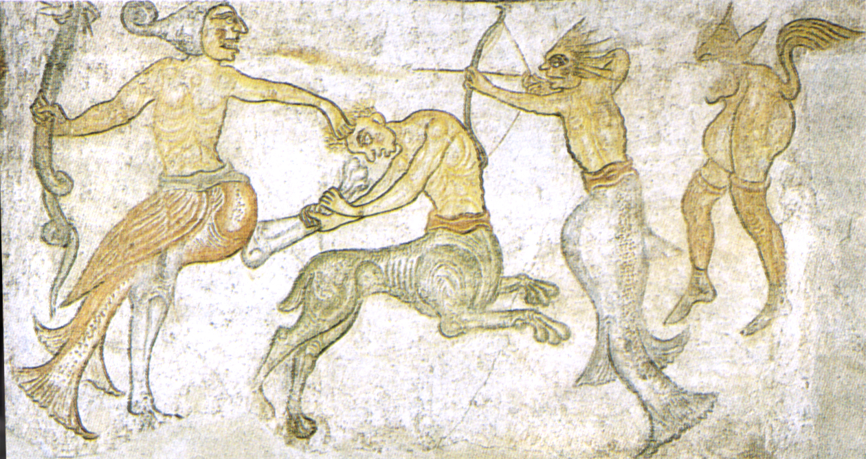 Romanesque frescos of demons in St. Jakobs chapel in Kastellaz, Tramin an der Weinstrasse, South Tyrol, Italy